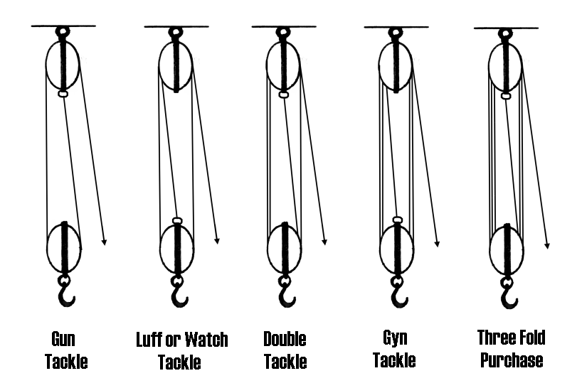 A diagram showing some of the more common ways of rigging a tackle/purchase with their names.